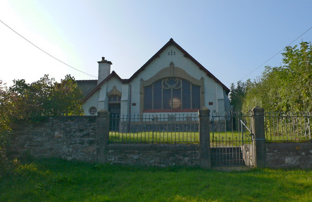 Out of the way chapel, near to Tai-Bach, Powys, Wales. Just off a minor road between Llanrhaeadr ym Mochnant and Llanarmon Mynydd Mawr.